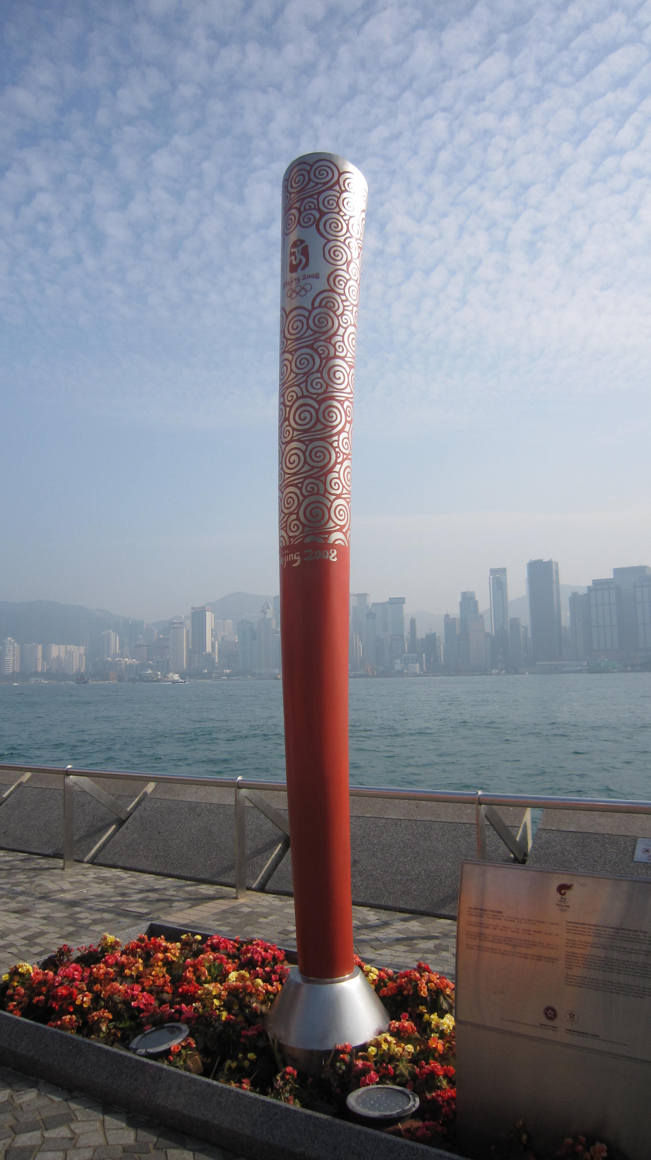 the Commemorative Sculpture of the Beijing 2008 Olympic Torch